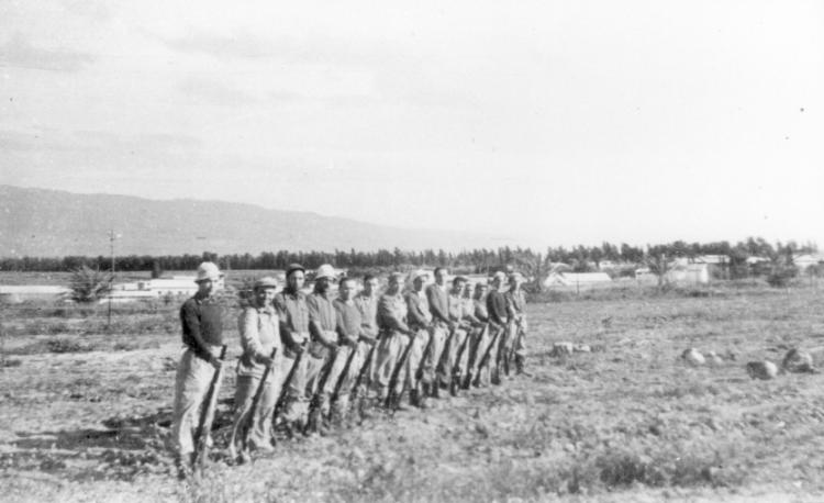 Palmach members training at Tirat Zvi at the end of 1947